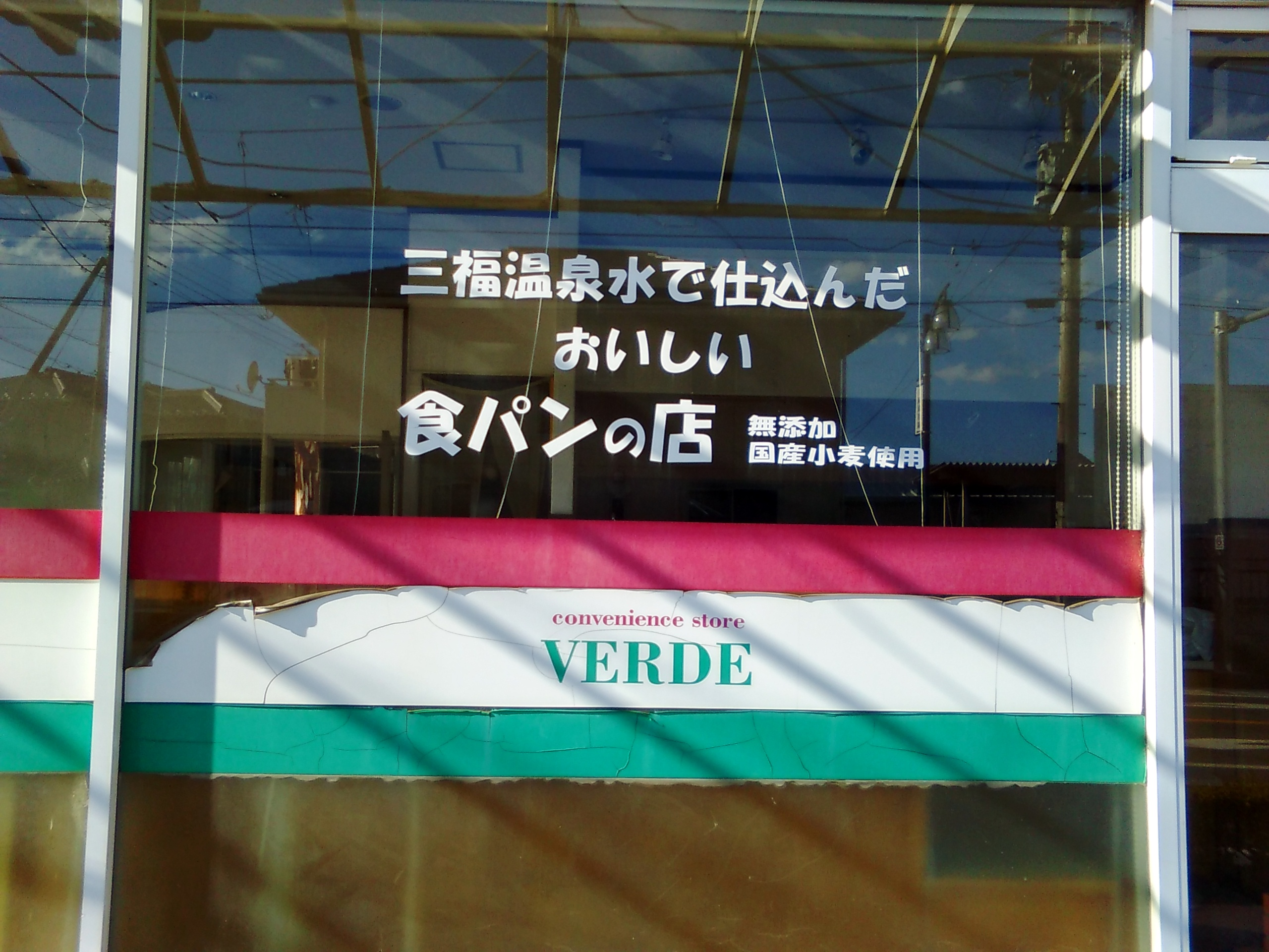 Remains of Sampuku Onsen (a hot spring) located in Takasaki, Gunma, Japan.